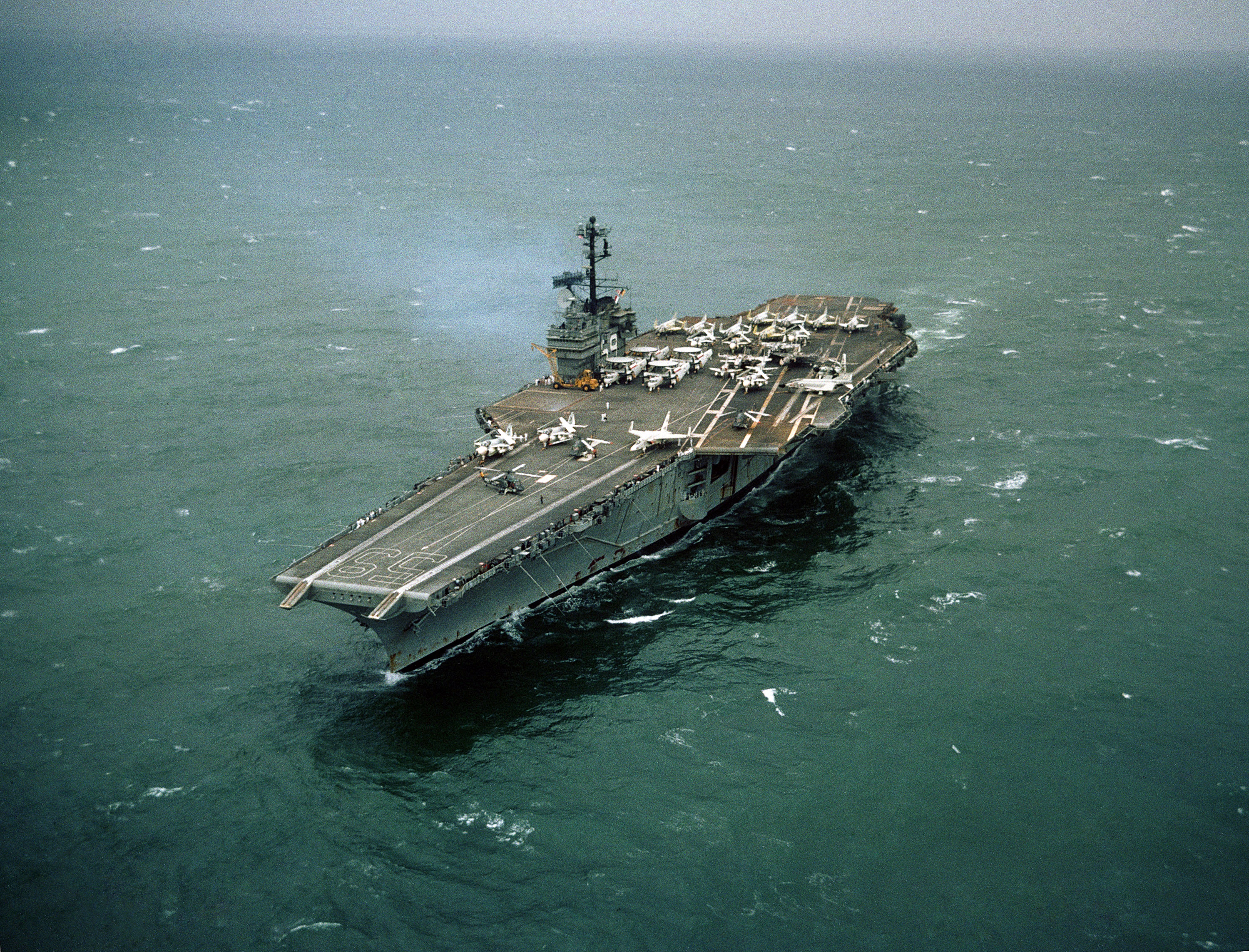 330-CFD-DN-SC-04-09140: An aerial port bow view of the Forrestal Class Aircraft Carrier, USS Forrestal (CVA 59) underway approximately one month after fires and explosions damaged the ship leaving 132 crewmen dead, 62 injured, and two missing and presumed dead while on duty in waters off Vietnam. The Forrestal is homeport at Norfolk, Virginia, 8/12/1967. PHC H.L. Wise, USN. (OPA-NARA II-2016/01/14).